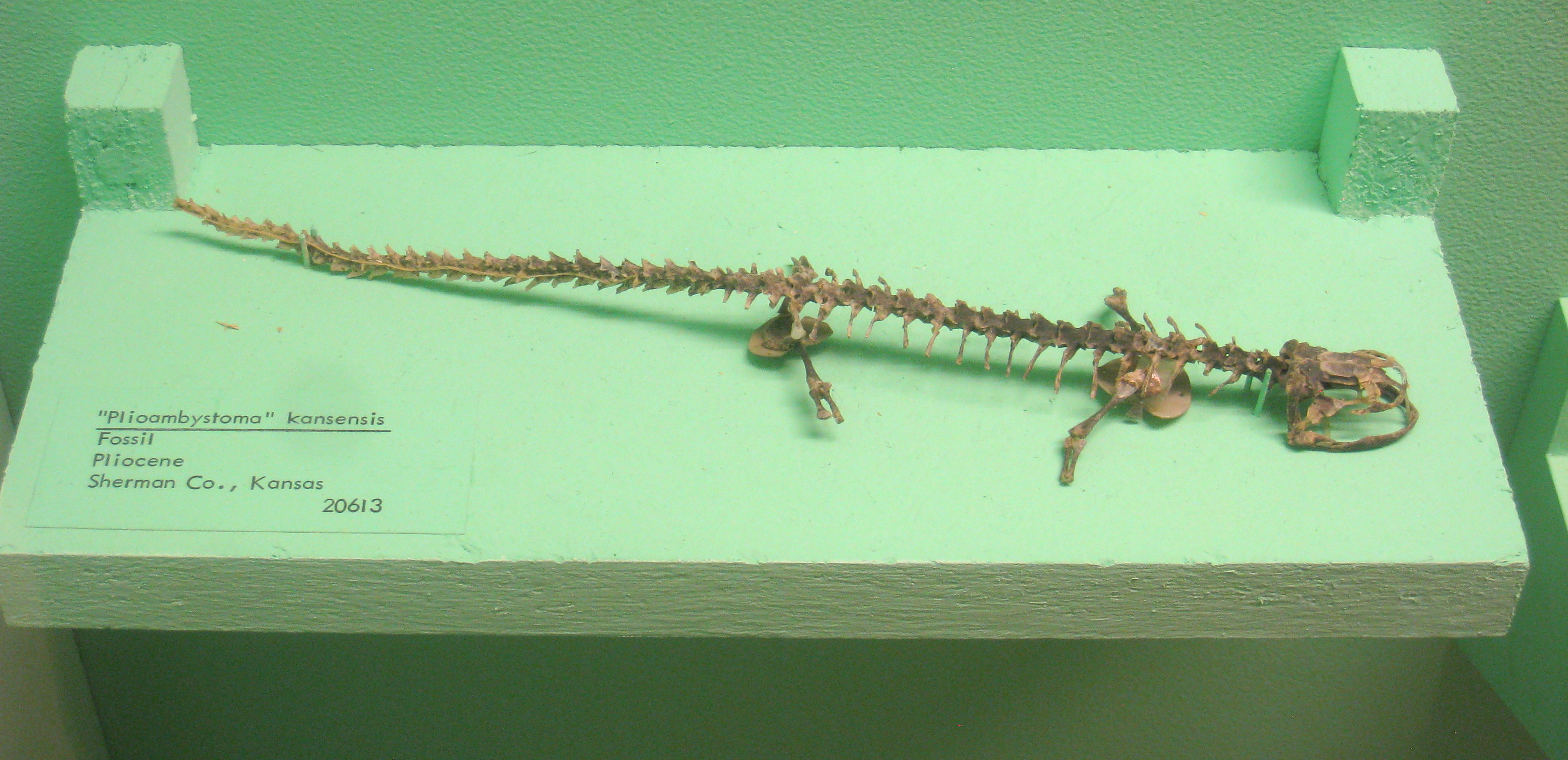 Ambystoma kansensis (Jr synonym Plioambystoma kansensis). Exhibit Museum of Natural History, University of Michigan.